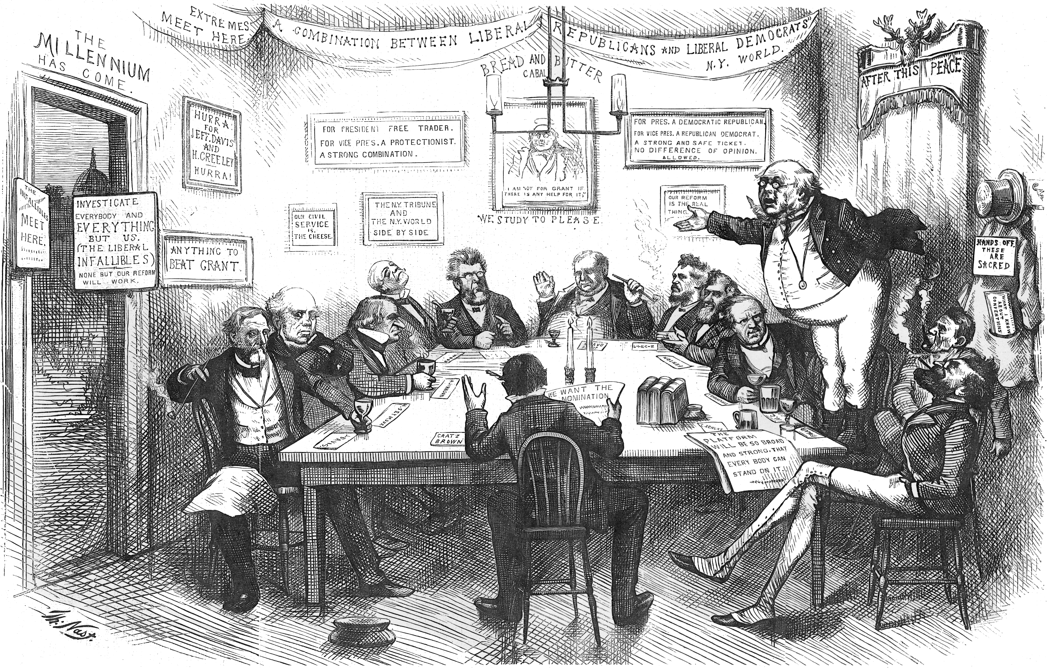 Horace Greeley stands on a chair addressing the other members of the Cincinnati Convention of the Liberal Republicans. Their names are inscribed on papers before each of them. Clockwise from Greeley, they are: Francis P. Blair Jr., Carl Schurz, Gratz Brown, Jefferson Davis, Horatio Seymour, Andrew Johnson, Fernando Wood, Thomas W. Tipton, David Davis, George F. Train, Reuben Fenton, Lyman Trumbull. Based on an illustration of Charles Dickens' The Pickwick Club by R. Seymour.